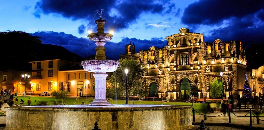 The plaza of weapons of Cajamarca is one of the most beautiful, extensive and important of Peru. It was the scene of the fall of the Inca Empire, since in this place happened one of the events that marked the History of Peru: the Inca Atahualpa was executed by the Spaniards; today in the same place stands a large stone pool carved from the eighteenth century. It is located in the Historic Center of Cajamarca. Around it are the cathedral, the church of San Francisco, the Municipality and beautiful houses of colonial constructions that make it a city with great Spanish influence and one of the most important of the country.